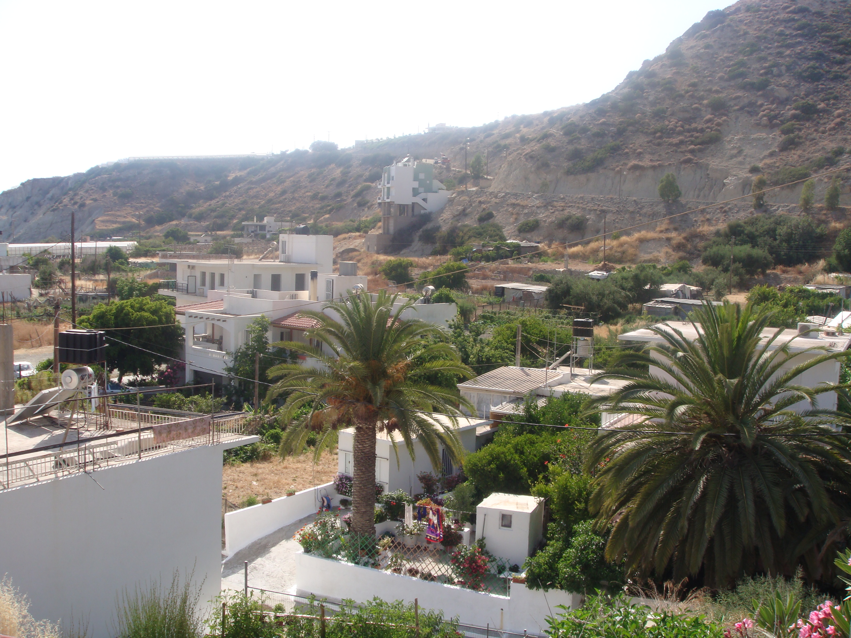 View of Sindonia (Psari Forada), in Iraklion prefecture.